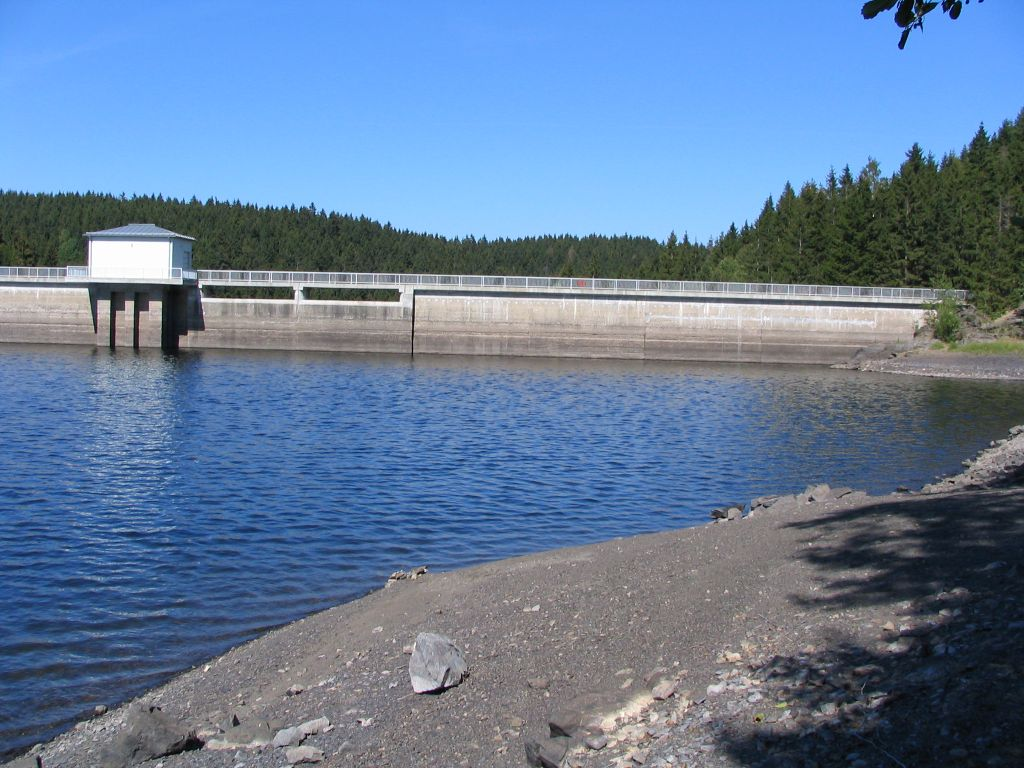 Zillierbach Dam, Harz mountains, Germany